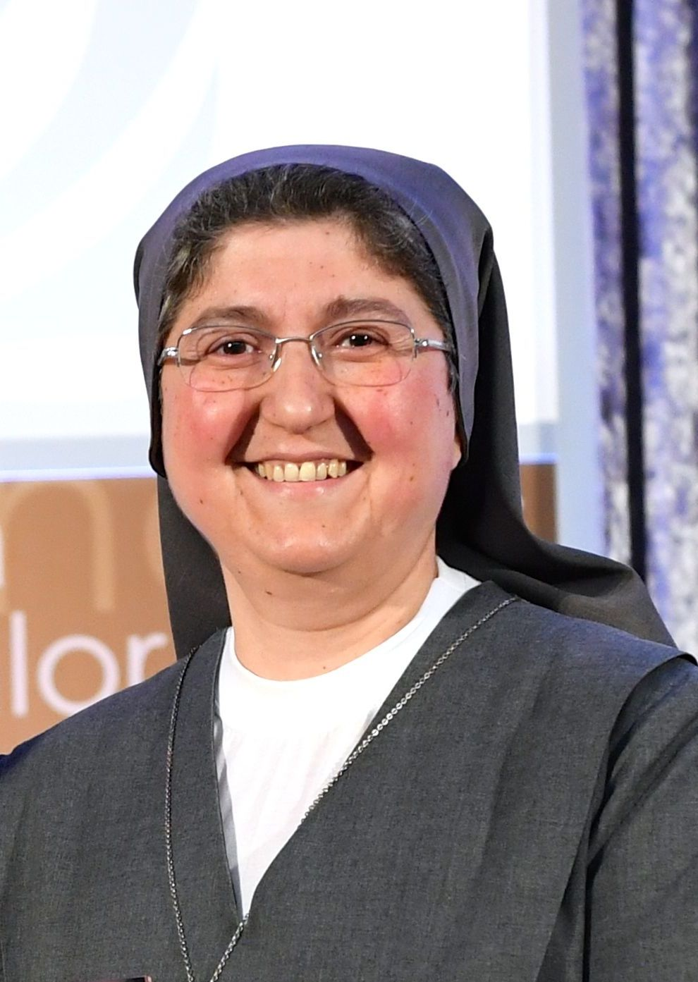 "First Lady Melania Trump poses for a photo with 2017 International Women of Courage Awardee Sister Carolin Tahhan Fachakh of Syria during a ceremony at the U.S. Department of State in Washington, D.C., on March 29, 2017." "Sister Carol, as she is known, is a member of the Daughters of Mary Help of Christians. Throughout the war, Sister Carol has remained in Damascus, although she was born in Aleppo. She has put her life at risk to serve the people in this war-torn country and remains a beacon of hope. The nursery school she runs establishes a safe and friendly environment for more than 200 Muslim and Christian children, many of whom have been traumatized by the events of the war. The tailoring workshop, a United Nations Human Rights Council program she manages, provides a much-needed supportive community to vulnerable internally displaced women. The women receive an income and a job prospect, as well as support for their everyday needs. During the first year of the program, there were 14 pupils. Today over 100 Muslim and Christian women participate in the program, many of which have lost everything fleeing from other parts of Syria. At the end of the year-long training, participants have two choices: they can start working at home with a sewing machine provided by the school, selling their own creations or they can seek employment in the school workshop and earn a salary. Sales profits help the school to buy food for needy families, including some of the pupils and their own families, and to pay for rent, medication, and hospital fees as needed. Sister Carol explains, "We sisters help everyone, giving our all and without making distinctions between Christian and Muslim, following Jesus' example. Our work is also aided by volunteers and Muslim partners, good and generous people who work with such dedication. We feel deeply respected by them as well as by the entire population, including the army." [1]